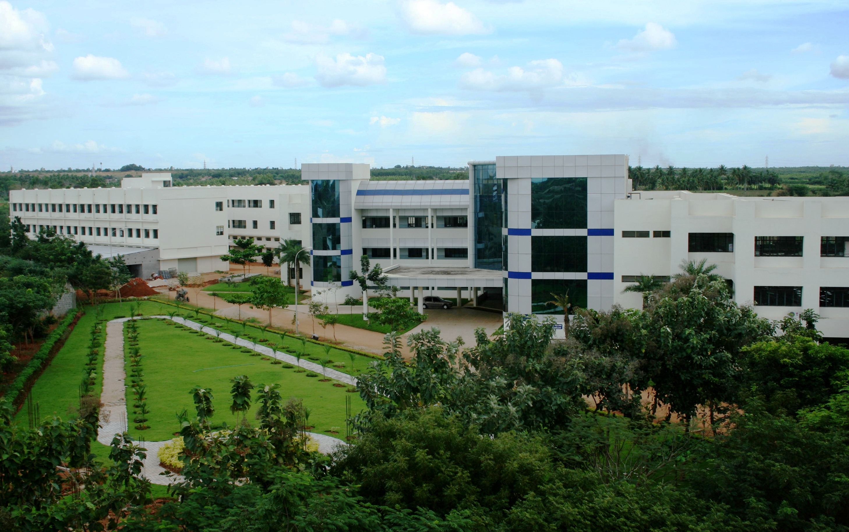 Prist University, Main campus